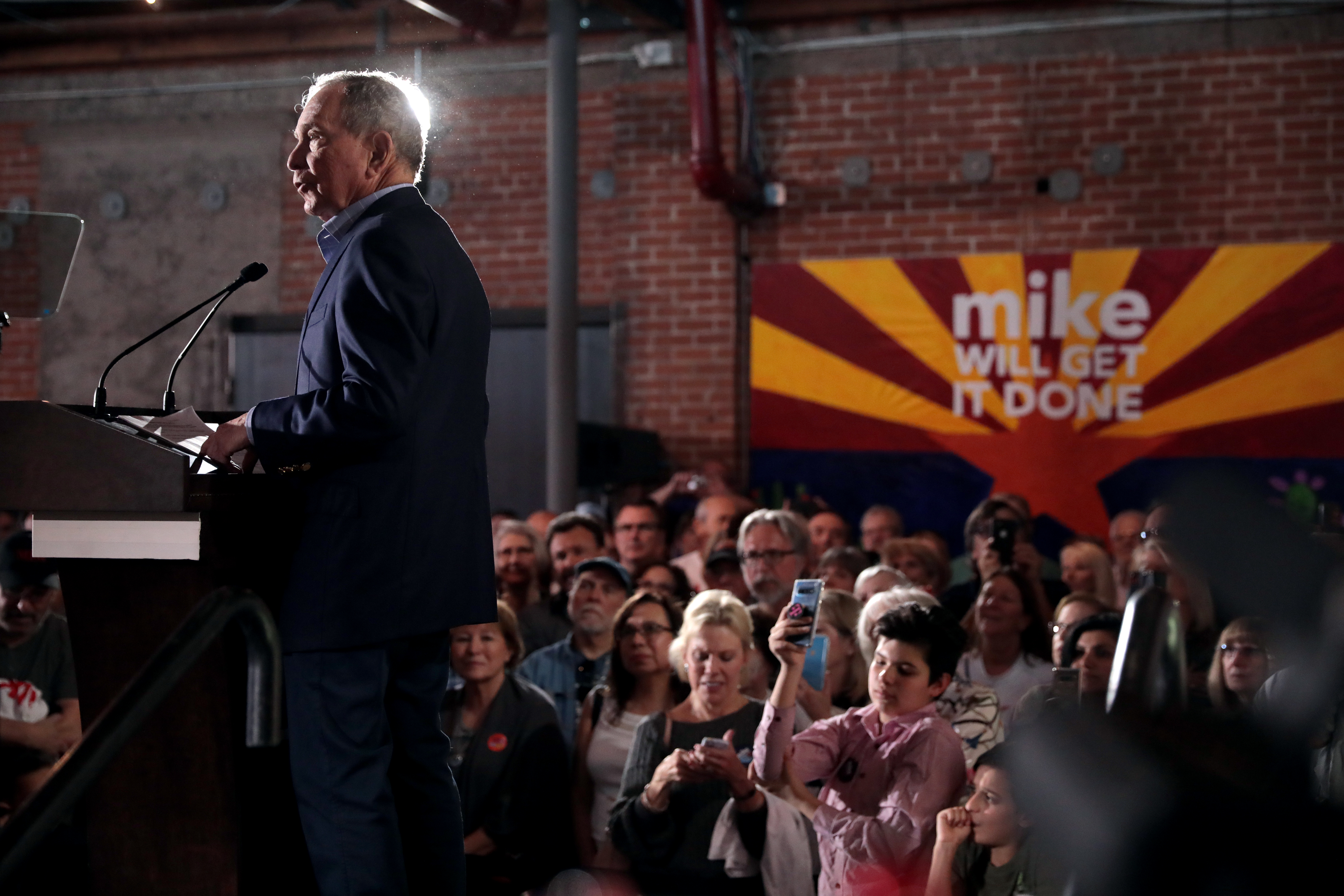 Former Mayor Mike Bloomberg speaking with supporters at a campaign rally at Warehouse 215 at Bentley Projects in Phoenix, Arizona.